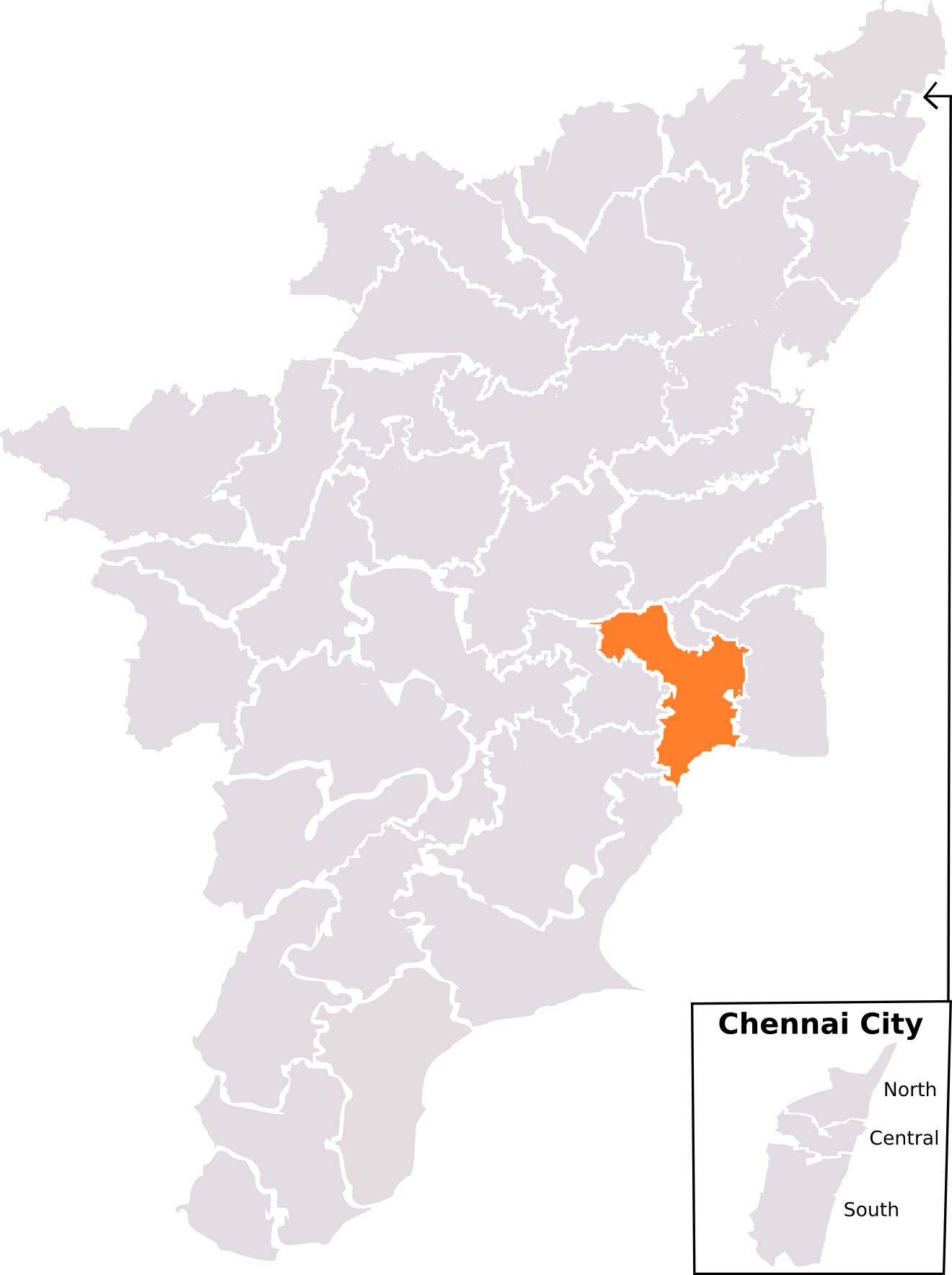 Lok Sabha Election map for Tamil Nadu. Map is based on ECI drawn map. Results are based on ECI website.